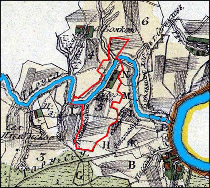 Схема владения Сутормино, принадлежащее Марии Степановой, дочери Ратиславской (выделено красным). На основе Атласа Калужского Наместничества 1782 года.